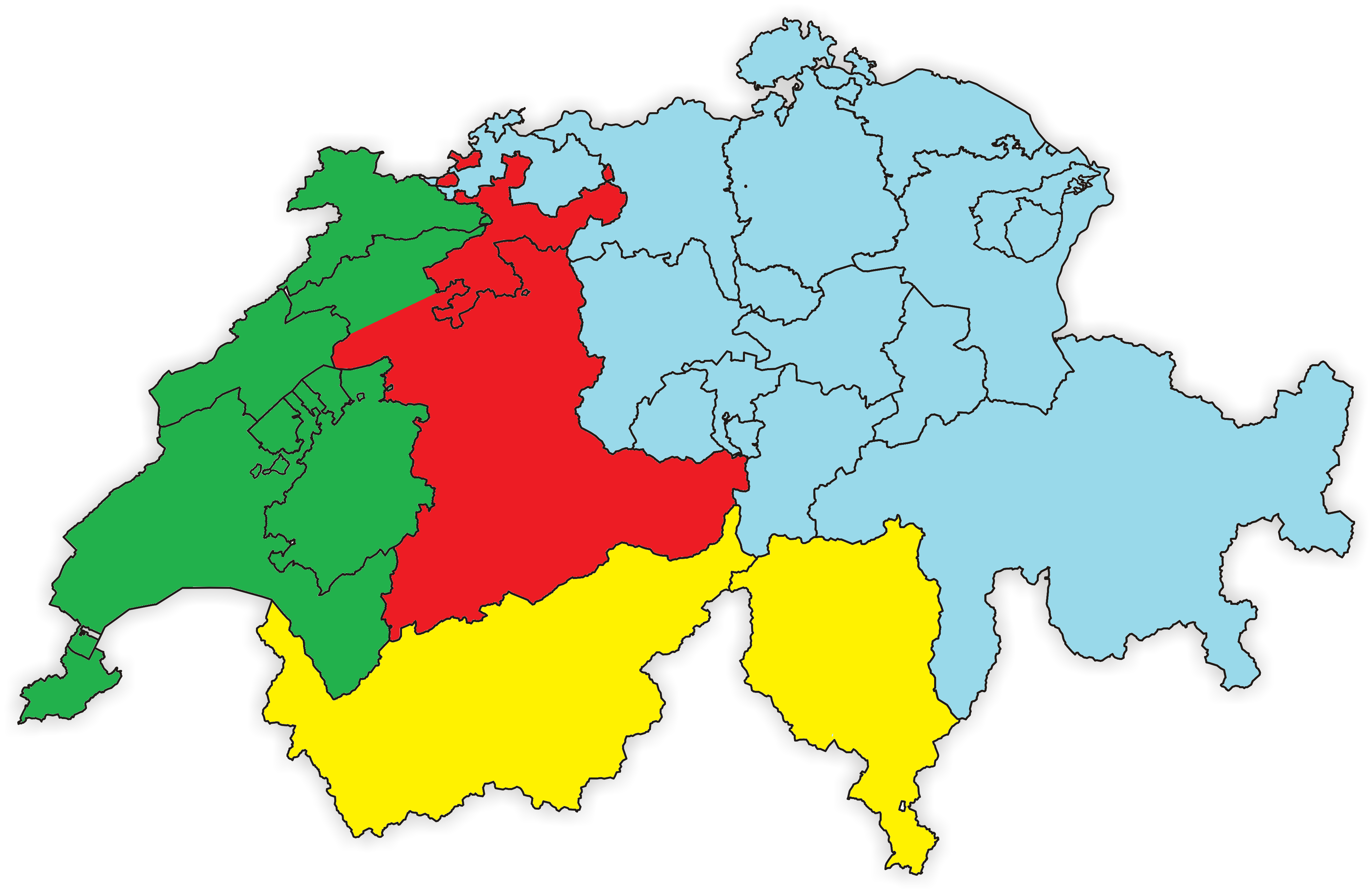 2014-15 Swiss Ice Hockey Cup divisions